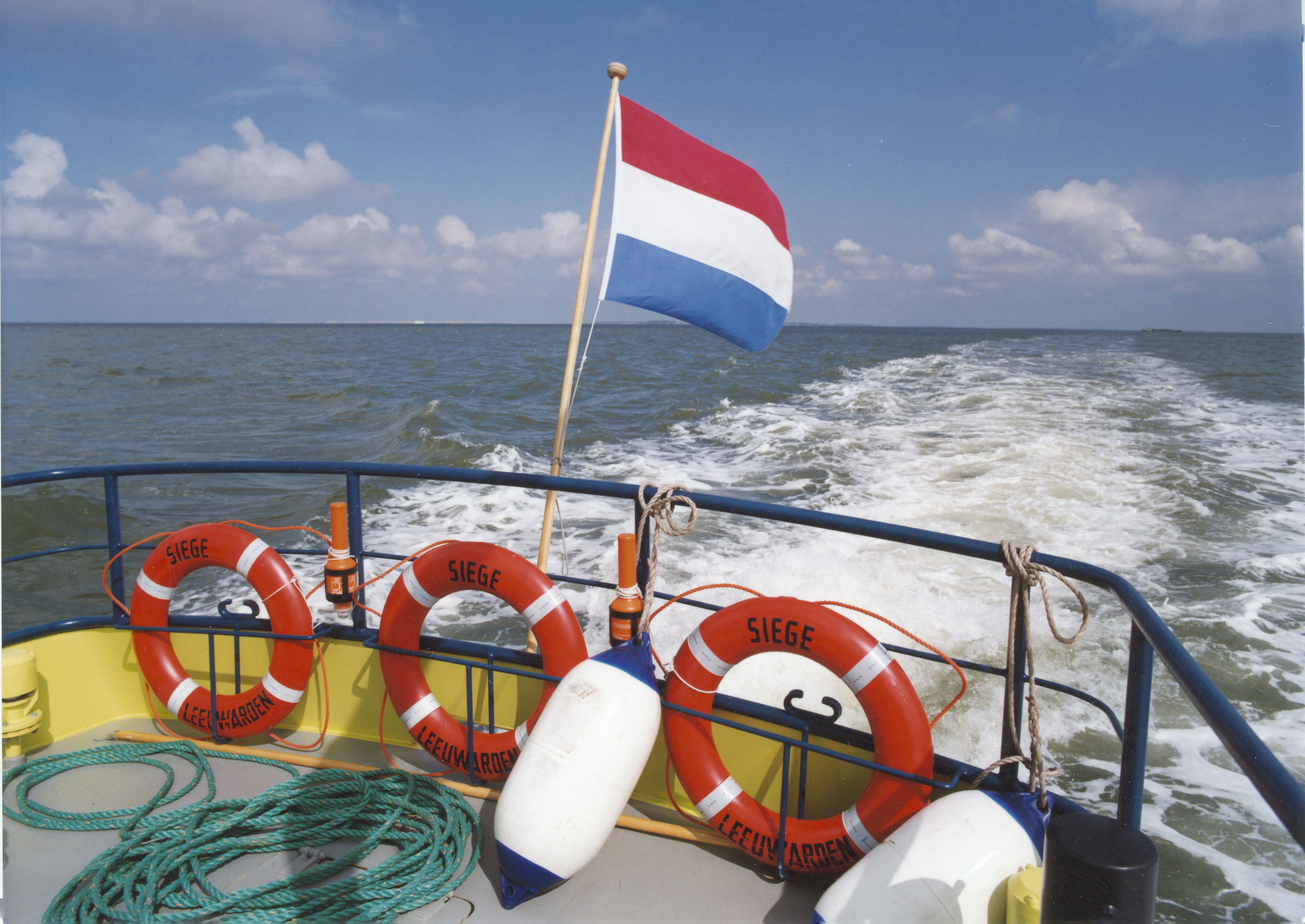 propeller wake behind a ship